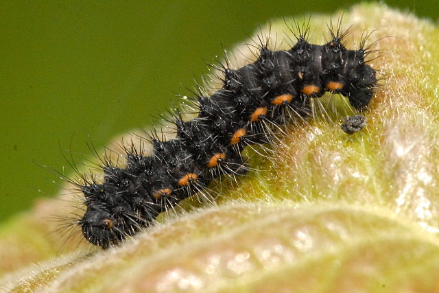 Eilema lurideola from Commanster, Belgian High Ardennes .